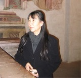 Chieko Ono